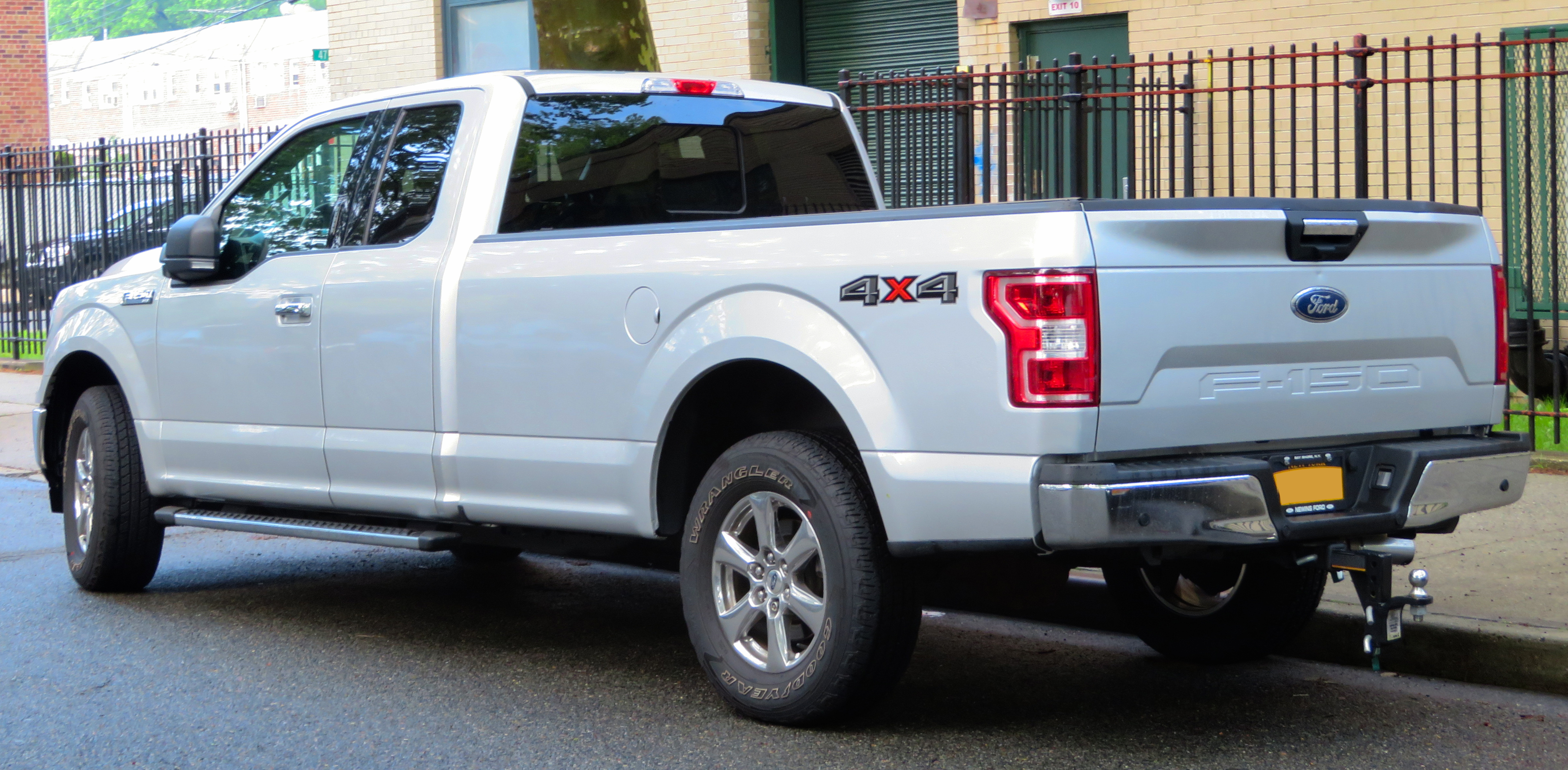 Photographed in Queens, New York